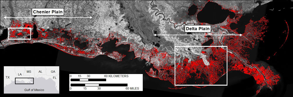 Satellite image of coastal Louisiana showing extent of historical wetland loss (in red). White boxes encompass study-area locations on the western chenier and delta plains.